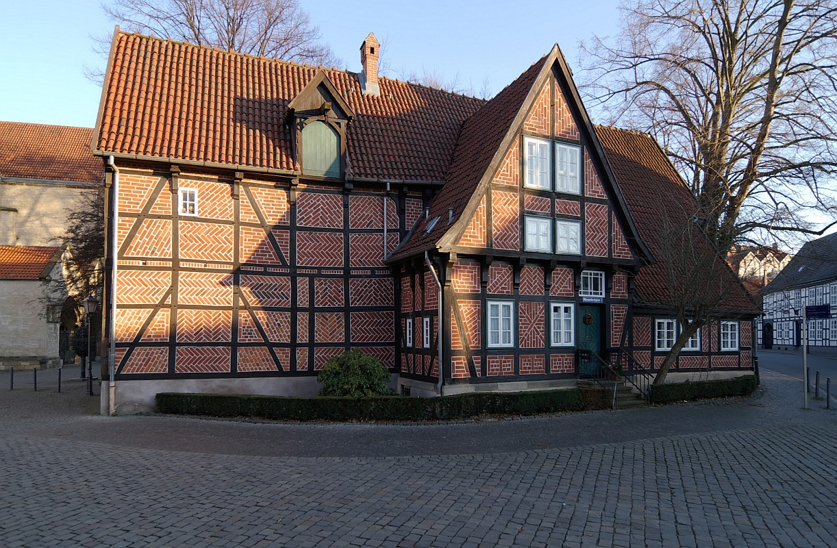 The Kantorhaus in town of Herford, District of Herford, North Rhine-Westphalia, Germany. The Kantorhaus next to the Muensterkirche in Herford was built around the year 1480. The house is the second oldest house in framework architecture in Westfalia.